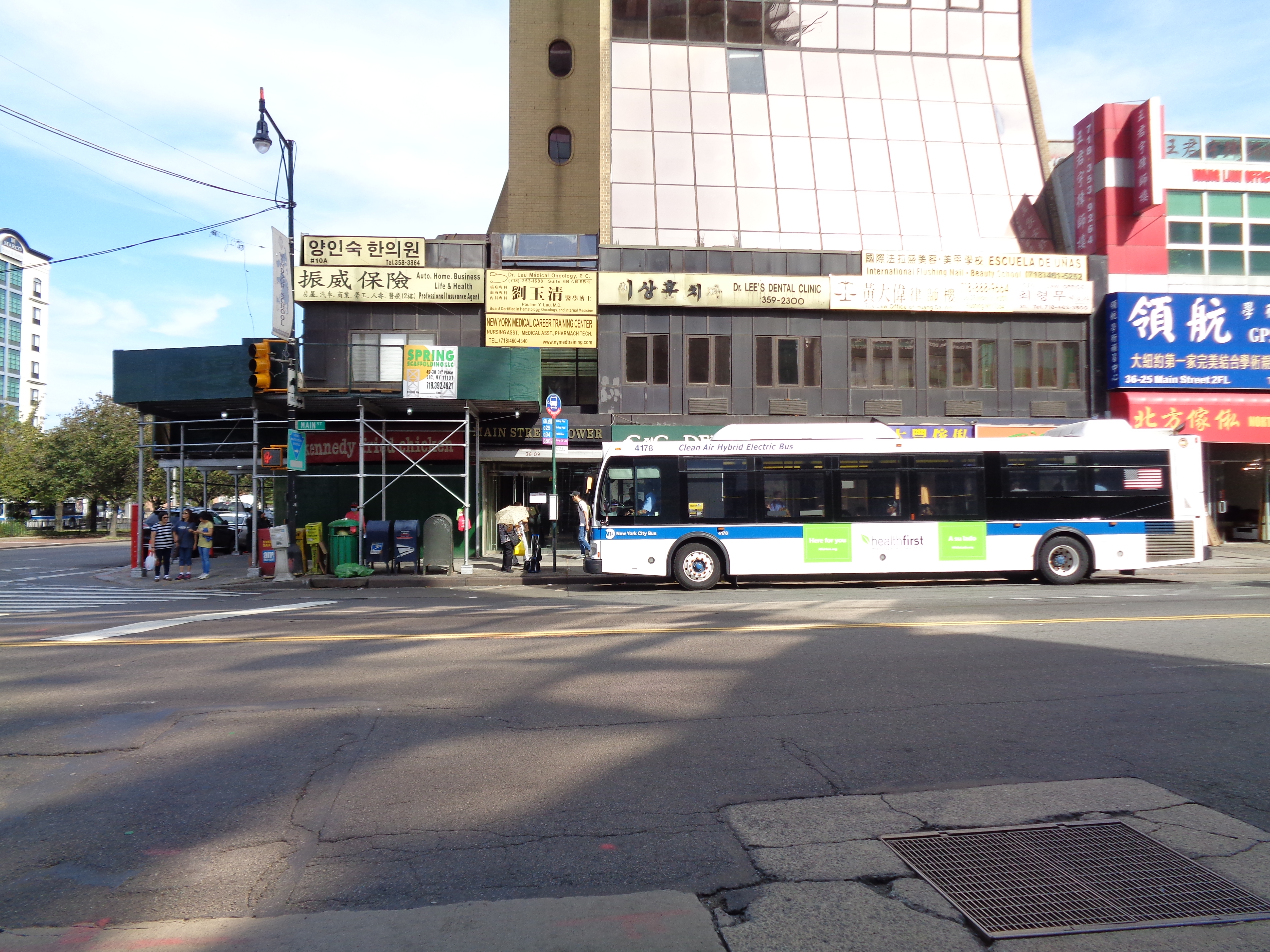 A College Point-bound Q20A bus picking up passengers at Main Street and Northern Boulevard in Downtown Flushing, Queens. This intersection was the sight of a crash one week ago, when a tour bus collided into a Q20 bus, with the tour bus proceeding into the Kennedy Fried Chicken restaurant (left) now closed and covered in scaffolding.